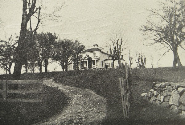 Photograph of the Joshua Hett Smith House, Treason Hill, West Haverstraw, New York. American General Benedict Arnold met with British Major John André at the house on September 22, 1780, while planning the treasonous surrender of the fort at West Point, New York. The house later served as General George Washington's Headquarters, August 20 to 25, 1781. It was demolished circa 1922, and is now the site of the Helen Hayes Hospital.